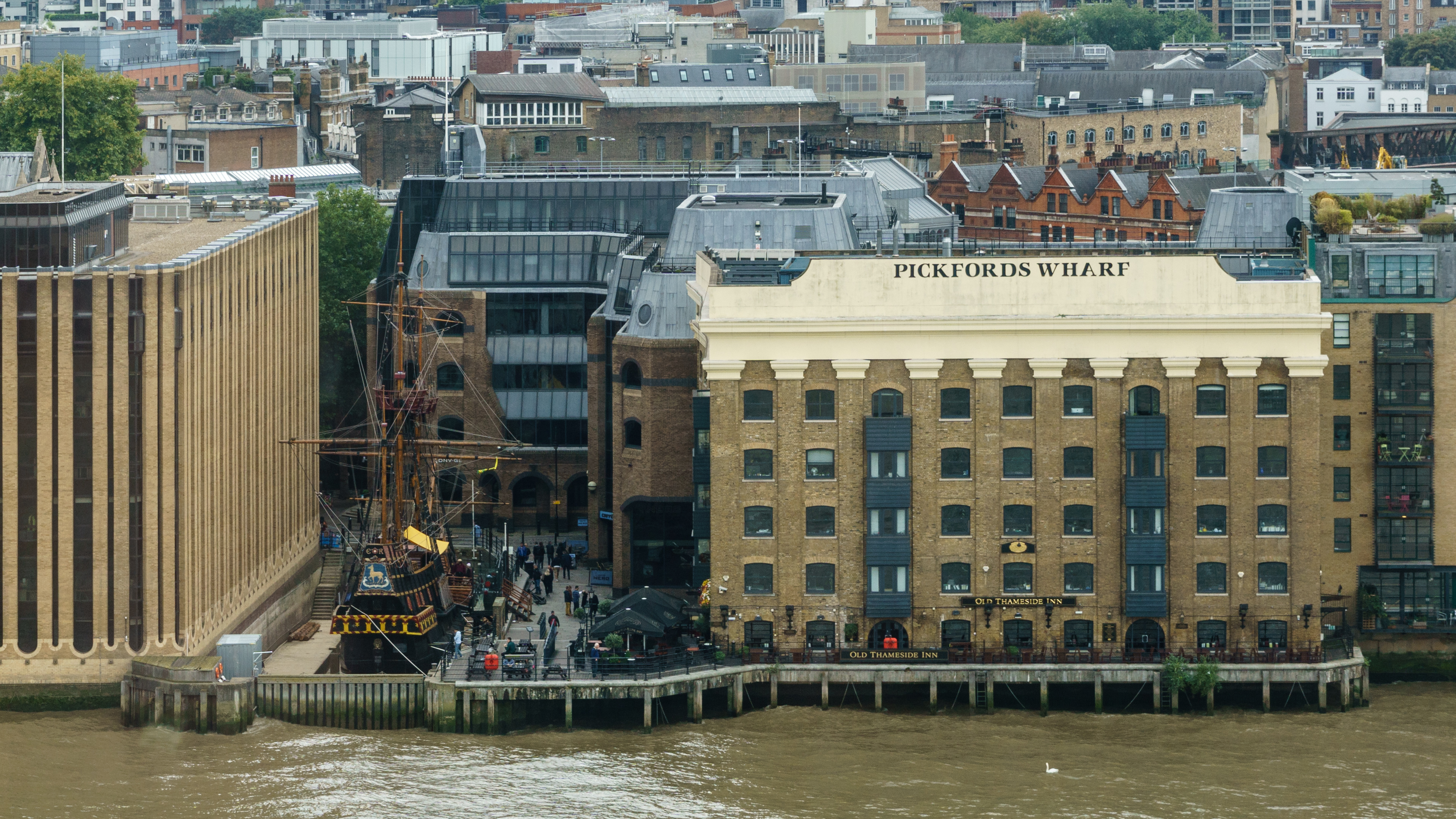 A replica of the Golden Hinde. Photo taken from Nomura headquarters.